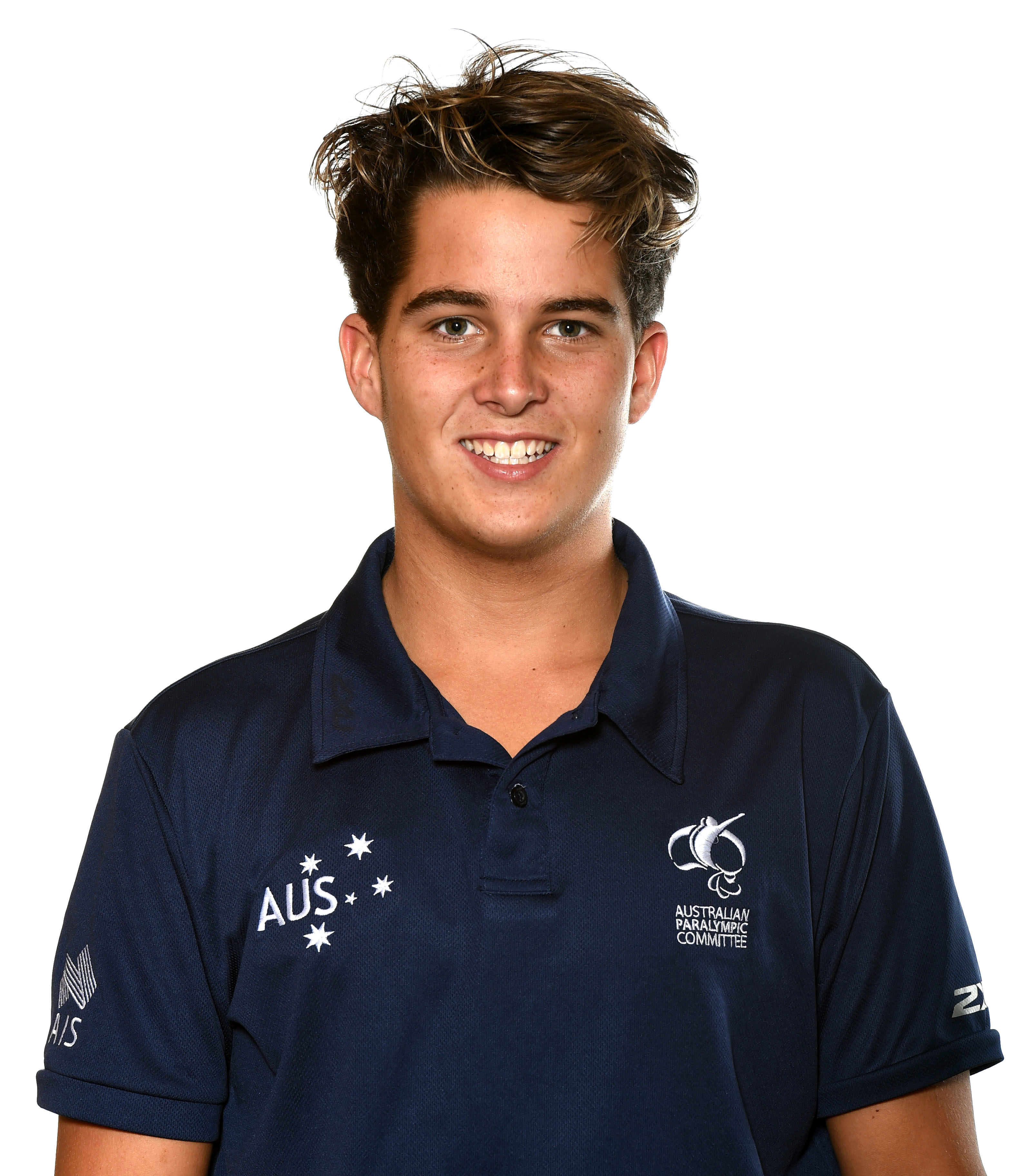 Media photo of 2016 Australian Paralympic Team Member Logan Powell